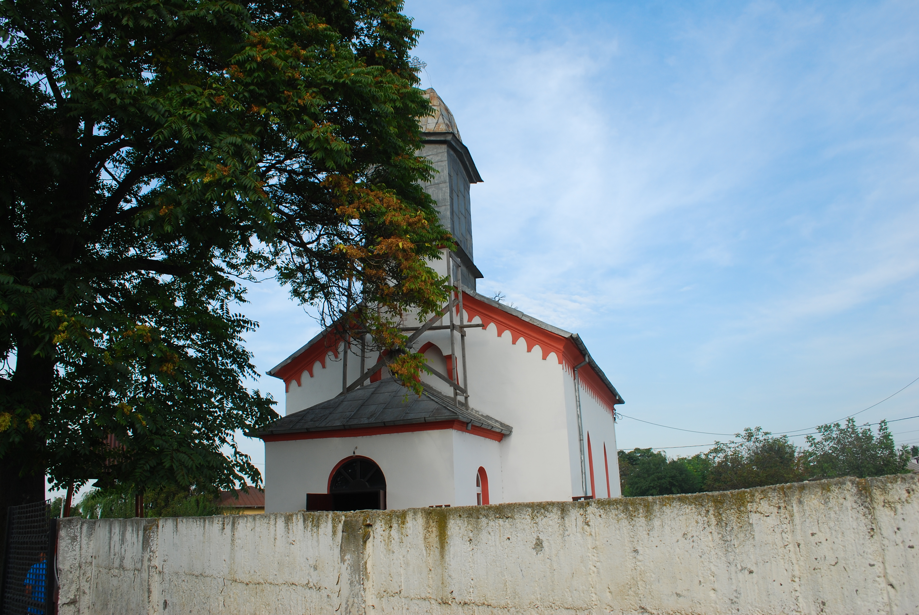 Church of the Dormition of Mary in Piteasca, Găneasa Commune, Ilfov County, RomaniaRomână: Biserica Adormirea Maicii Domnului din satul Piteasca, comuna Găneasa, județul Ilfov, România